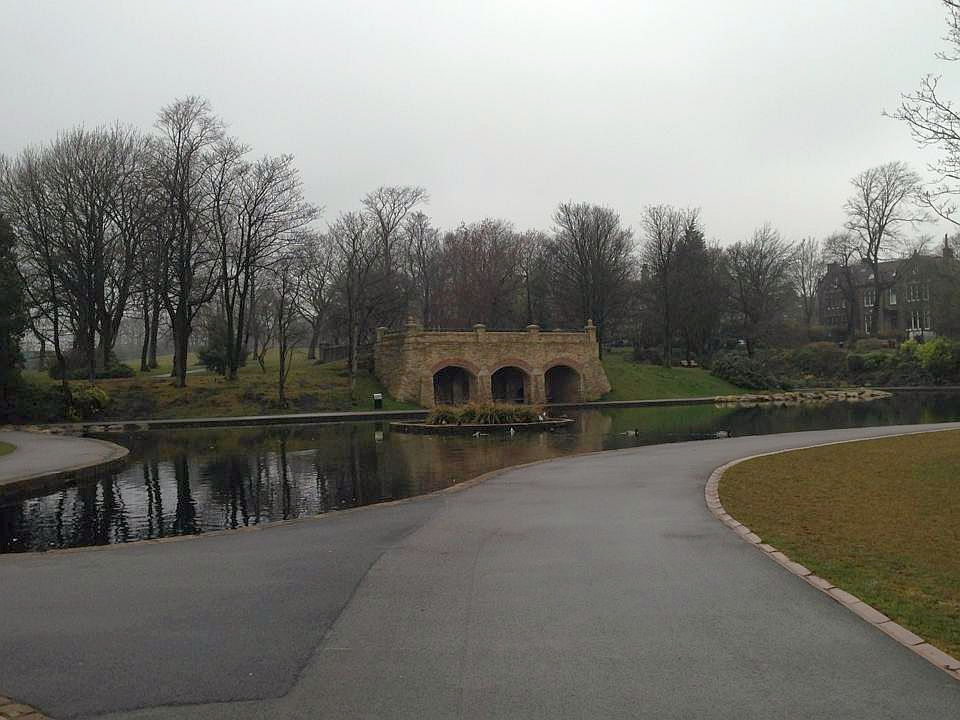 A lake in Greenhead Park